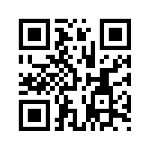 A QR code containing the link - error correction level M. Made in Google API.